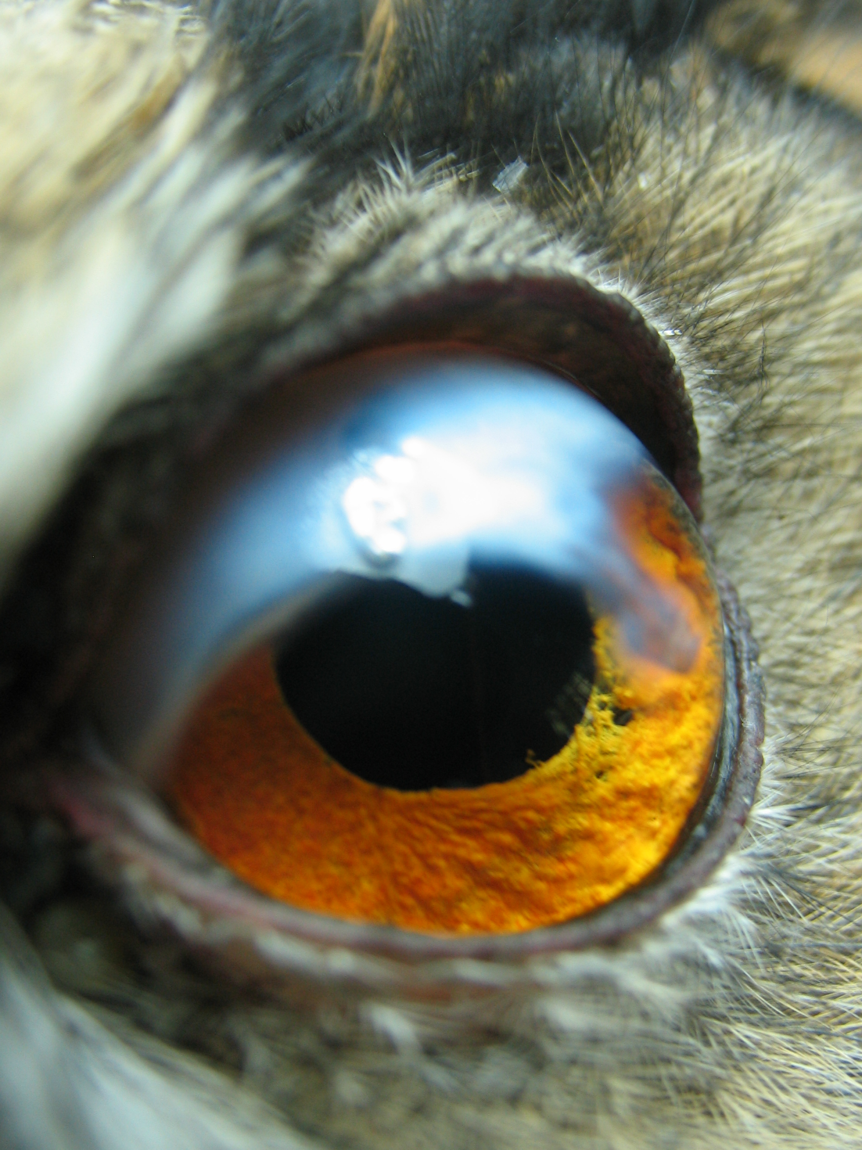 Close-up of an Eagle-owl eye.